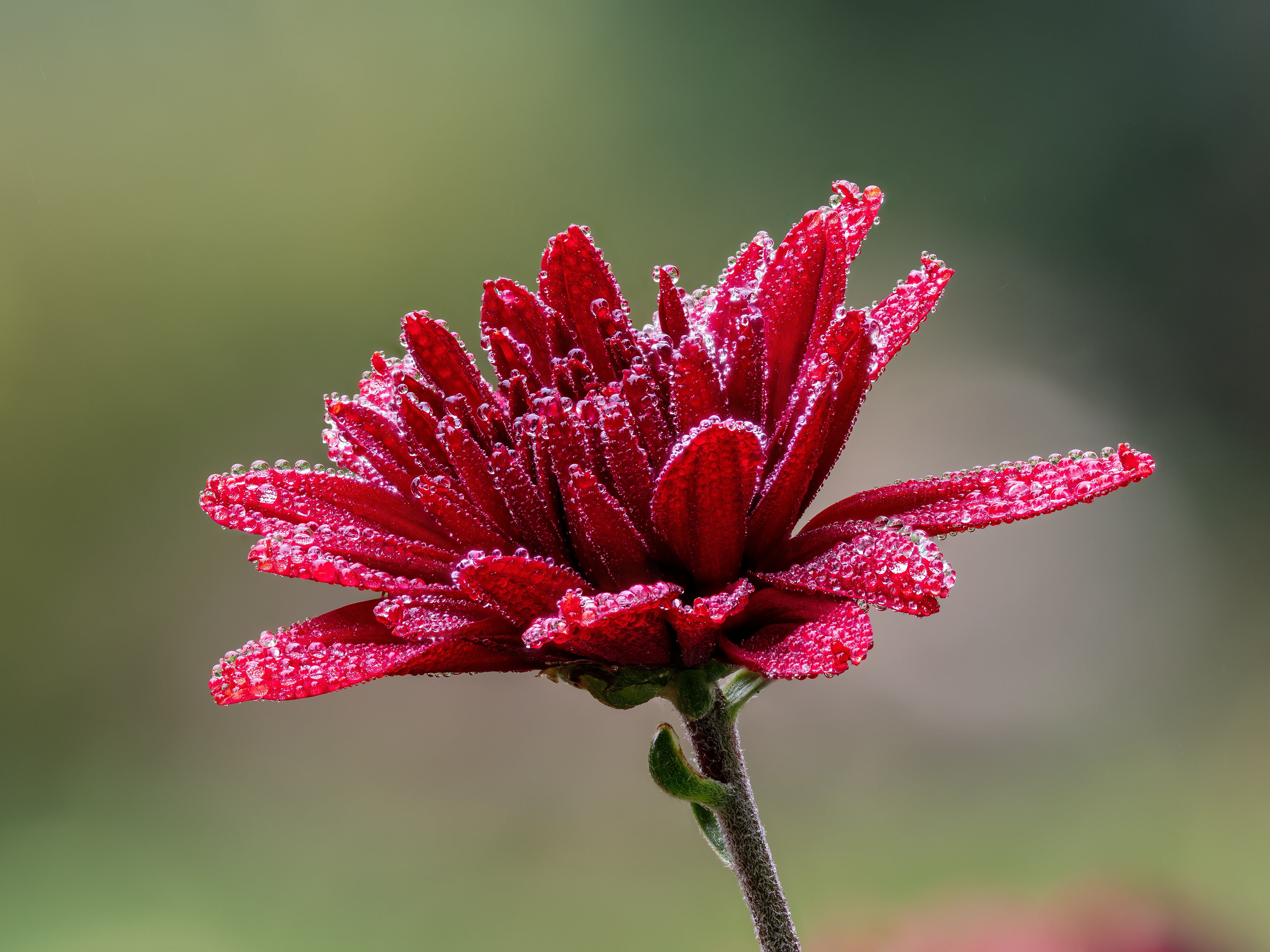 Flower of a red chrysanthemum (Chrysanthemum × morifolium) with dew drops in a garden in Bamberg in Upper Franconia. Focus stack of 32 frames.